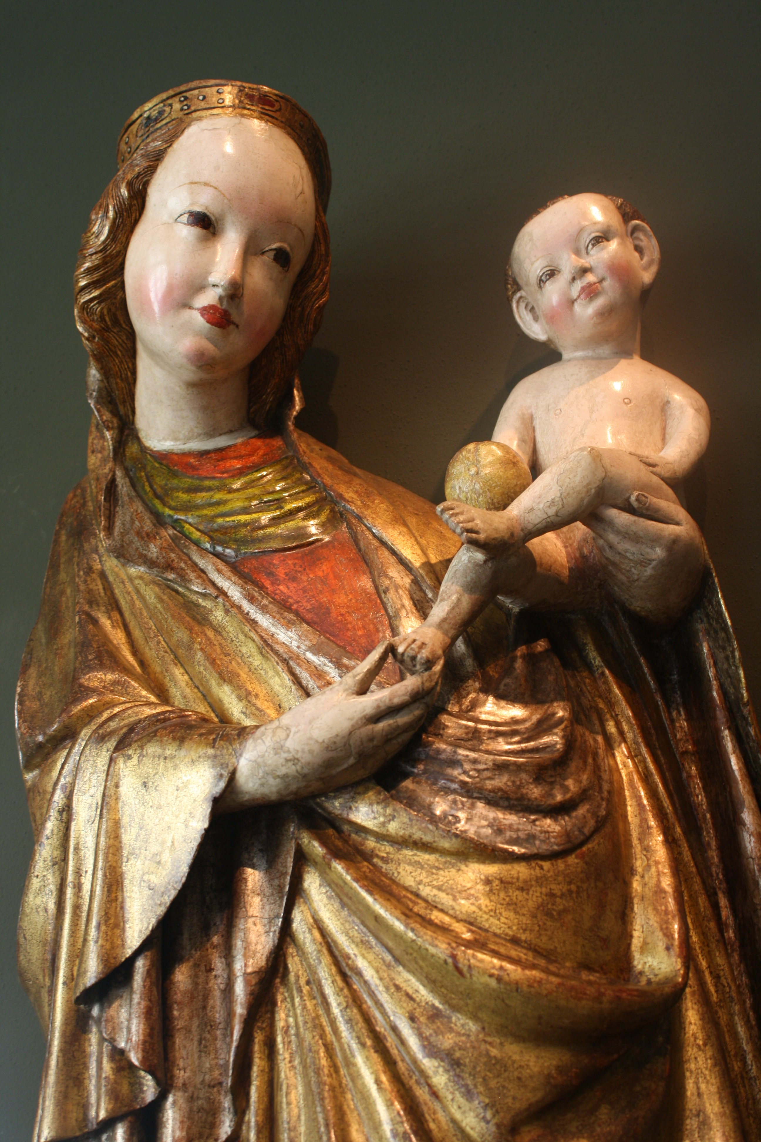 Gothic Madonna of Krużlowa (Cracow, National Museum, Palace of Edward Ciołek)